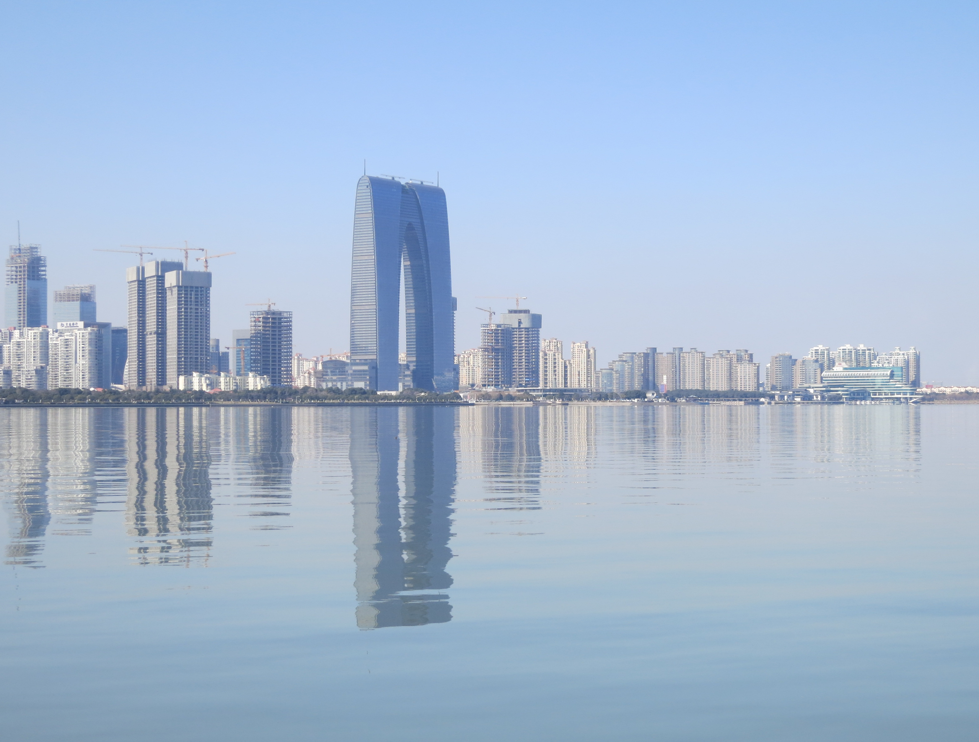 The Gate of the Orient (Simplified